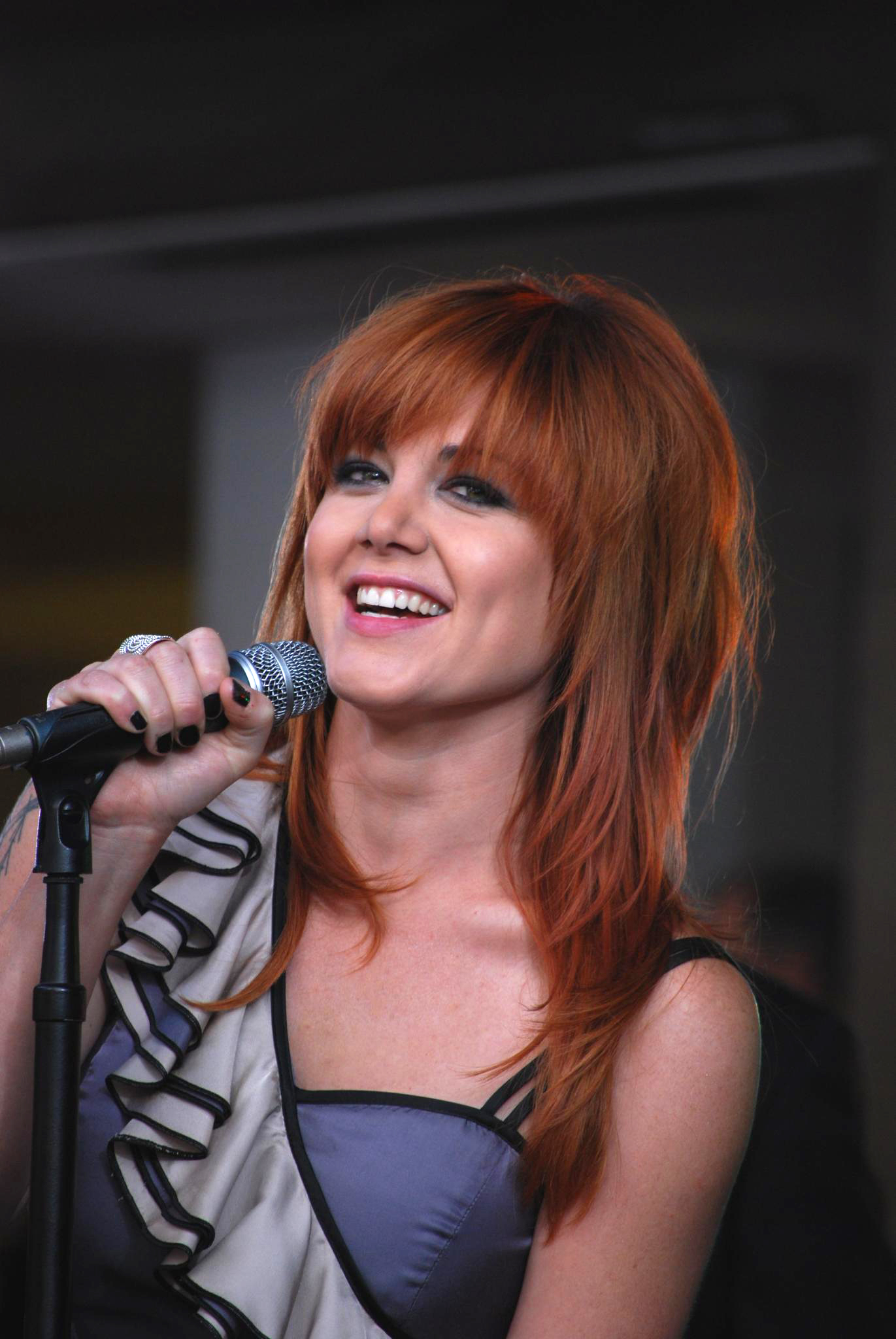 Vanessa Amorosi at the Ch9 Today Show at Bourke Street Mall